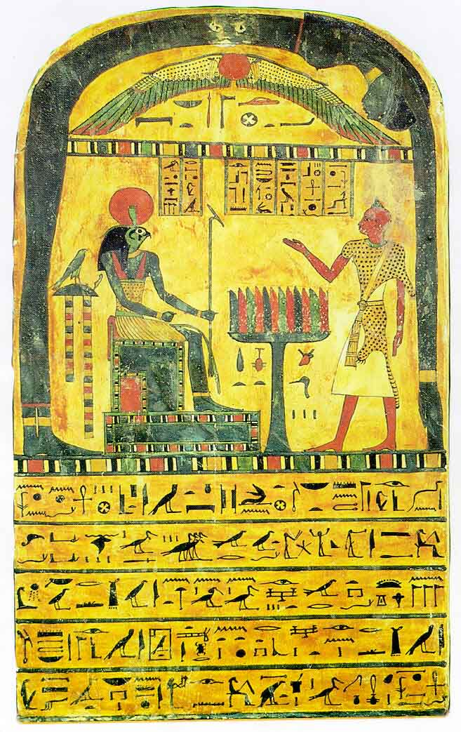 Imagem de escultura egípcia